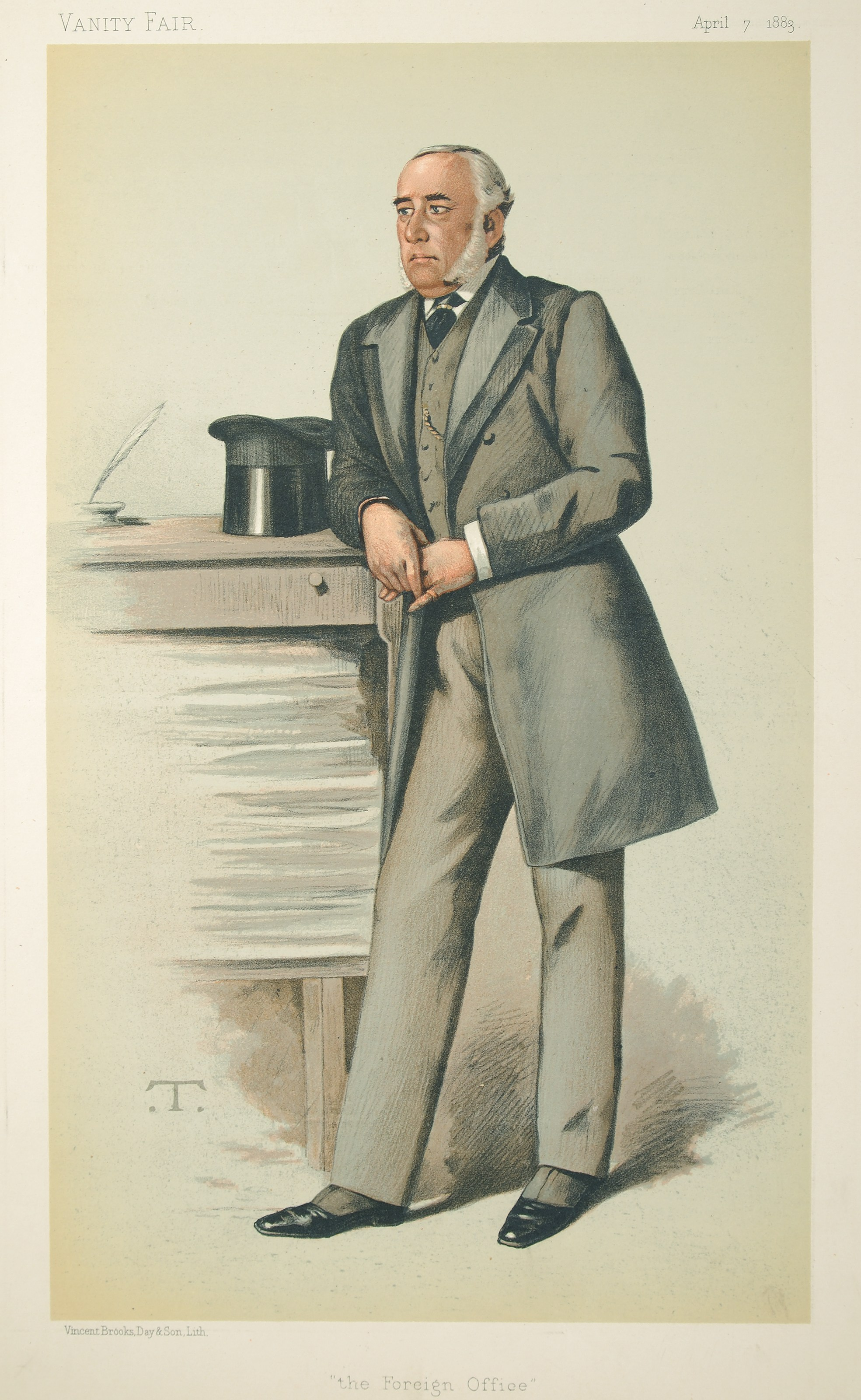 Men of the Day No.280: Caricature of Sir Julian Pauncefote KCMG CB. Caption reads: "The Foreign Office"